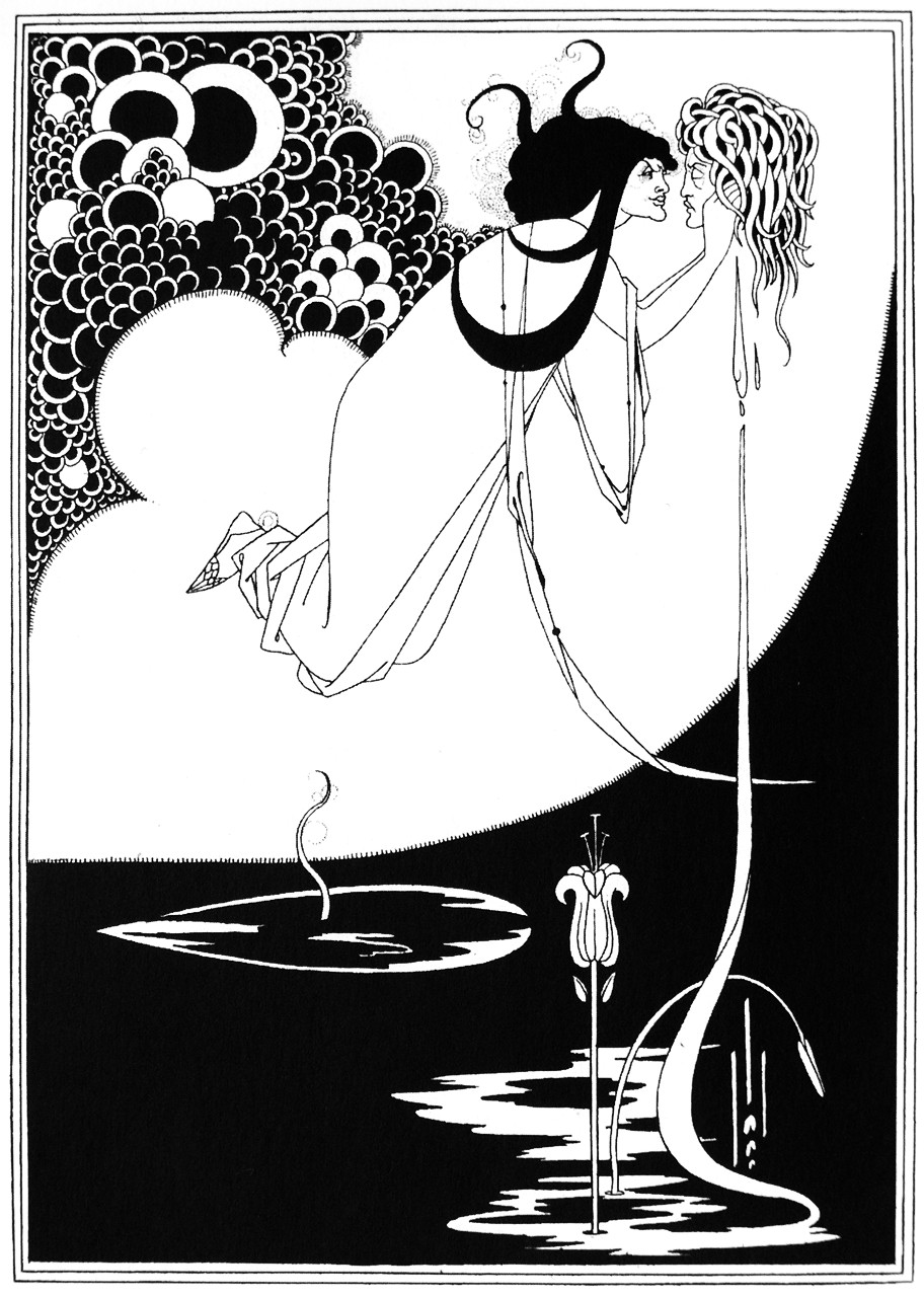 The Climax